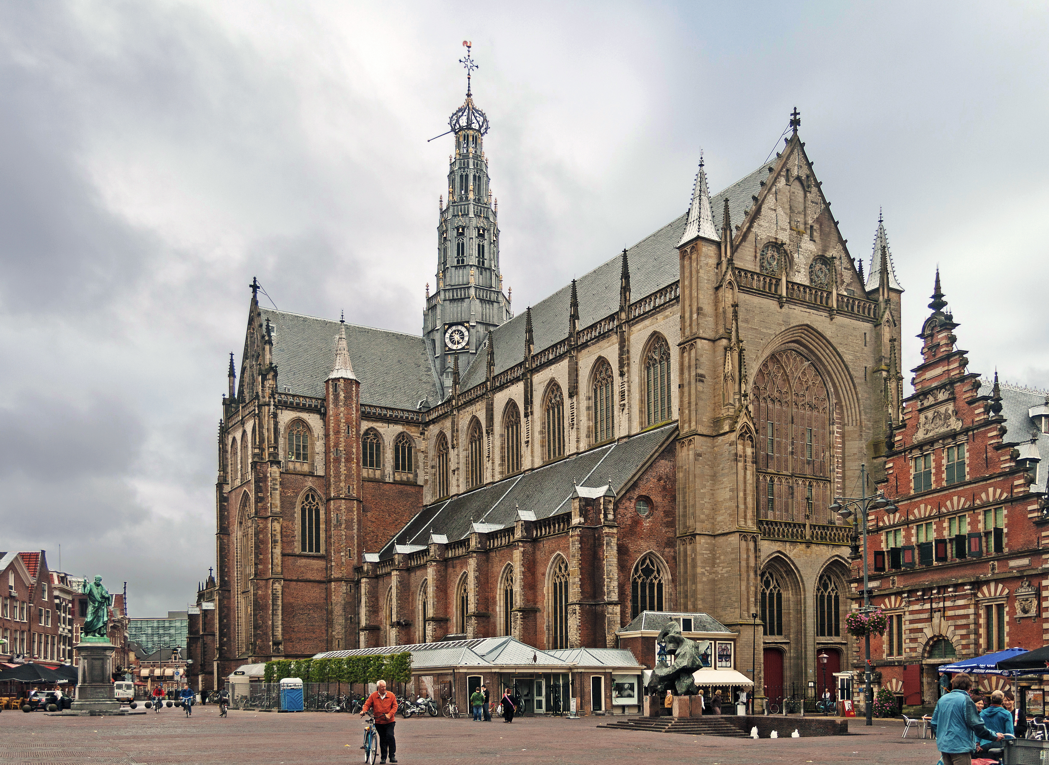 St.Bavo Church, Haarlem